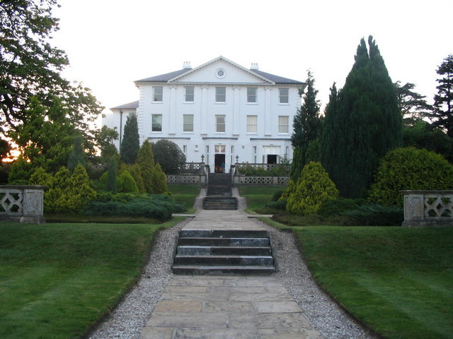 Englemere House This house and grounds can now be hired out and used for conferences and civil weddings.